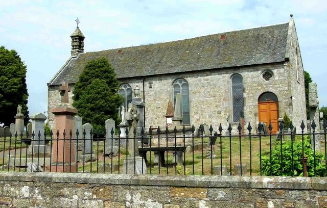 Orwell Parish Church The Orwell Parish Church on Ba' Hill in Milnathort moved to its current location from the old lochside site NO146038 after 1729. There is an impressive view south wards towards Loch Leven.